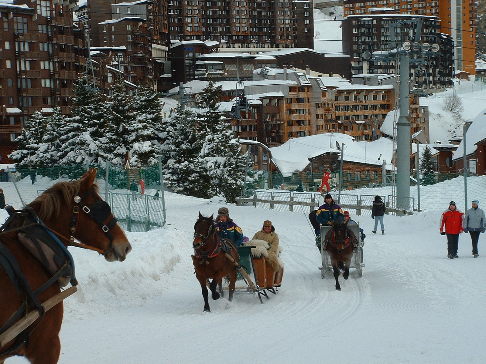 Avoriaz is a car free resort. In daylight hours the only way of getting around is on foot, skis or snowboard. If you would prefer a lift then a horse drawn sledge is your only option. At night there is a snow cat service